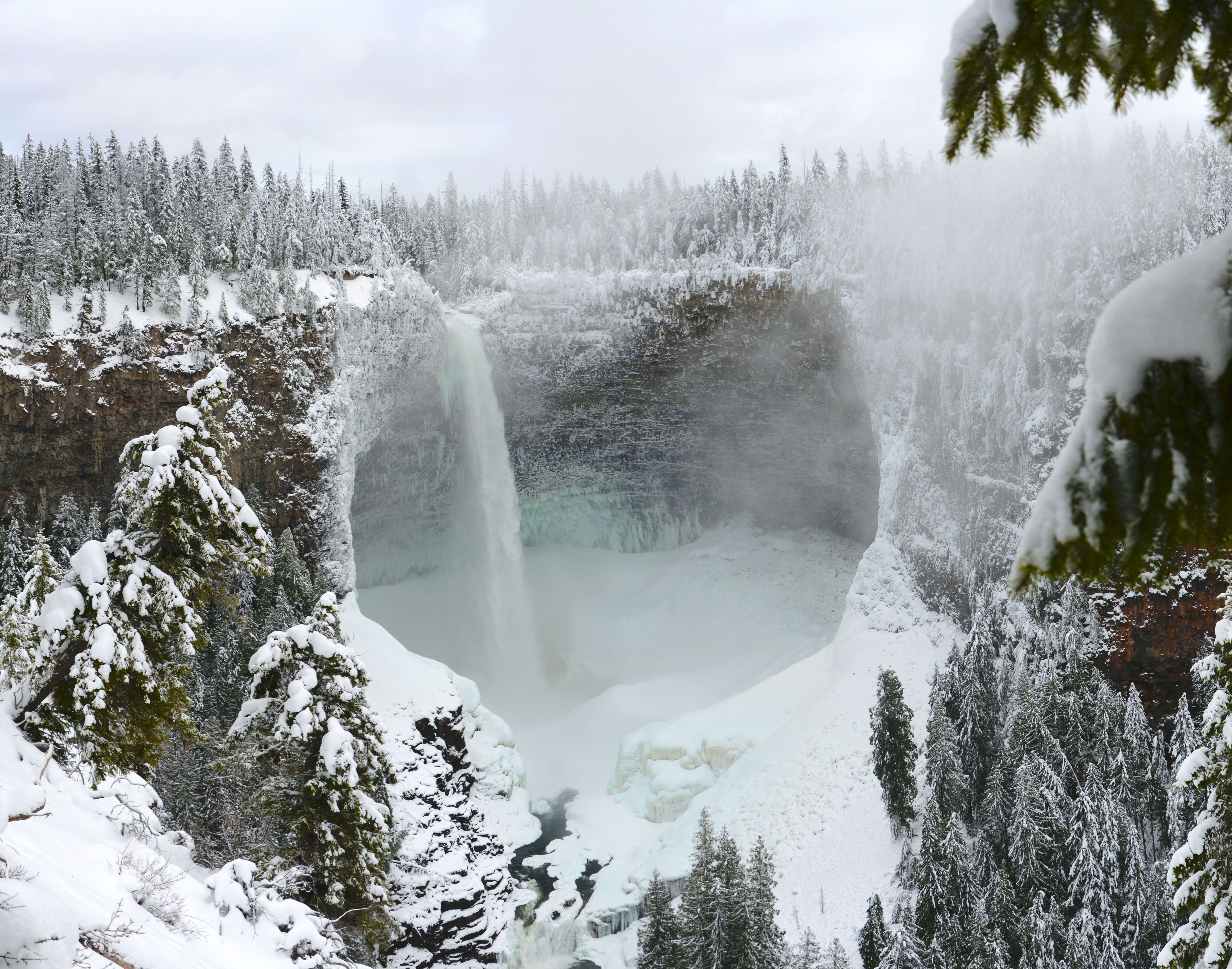 Helmcken Falls, Wells Grey Park, BC, Canada - taken December 2012